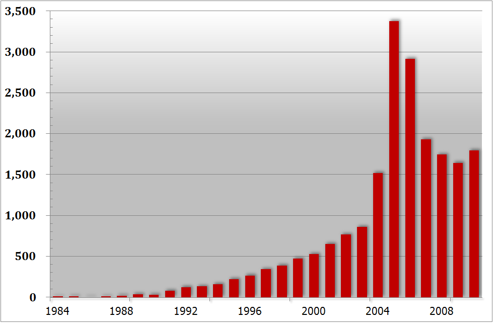 Data source: CDC of Taiwan (Oct 2011)